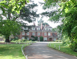 Ashurst Lodge: Home of the Wessex Institute of Technology